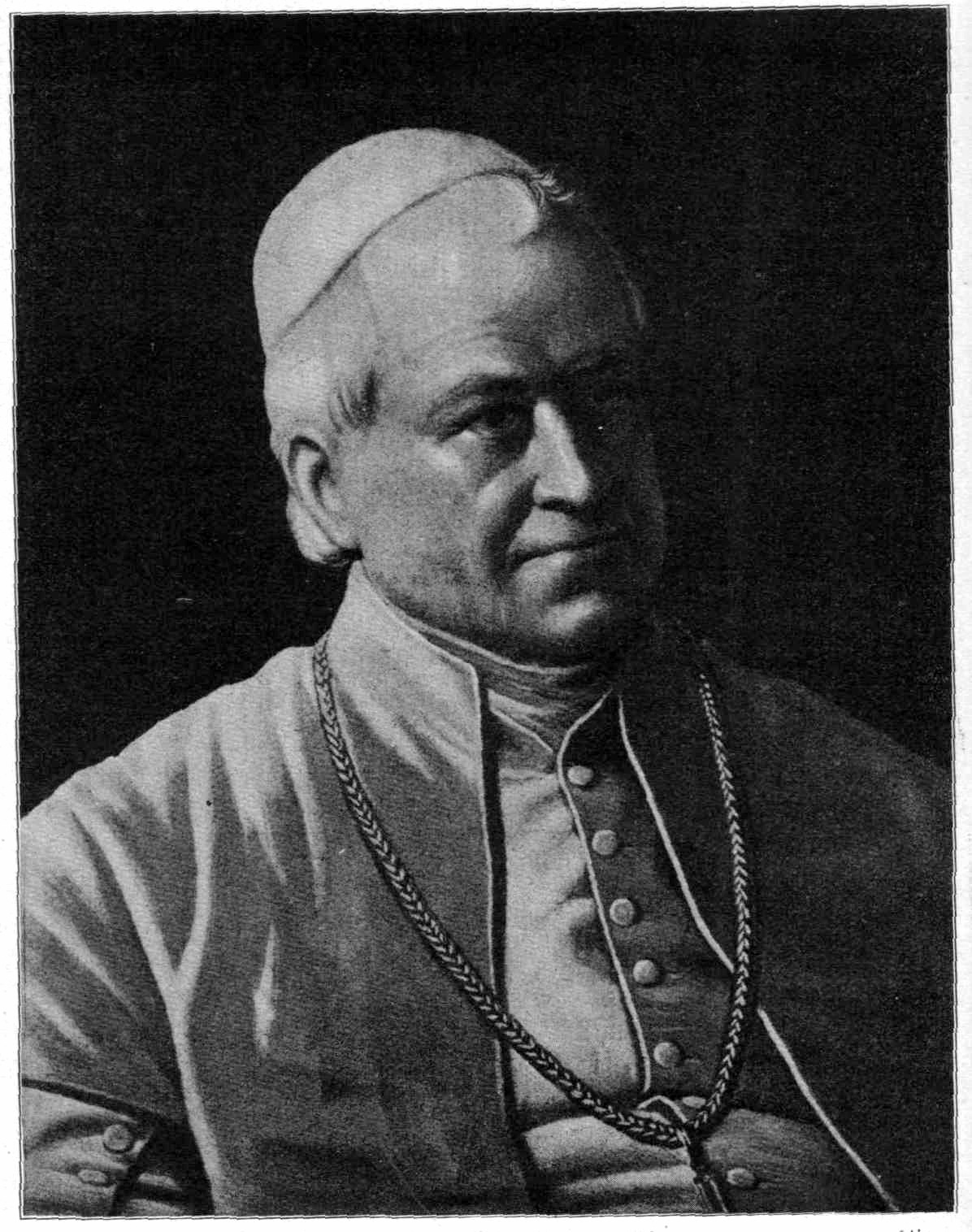 photography of Pius X.